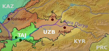 Map of the Fergana valley (highlighted) in Central Asia, national territories color coded, with shortened names, using boundaries from CIA 2001 Map File:Tajikistan_2001_CIA_map.jpg